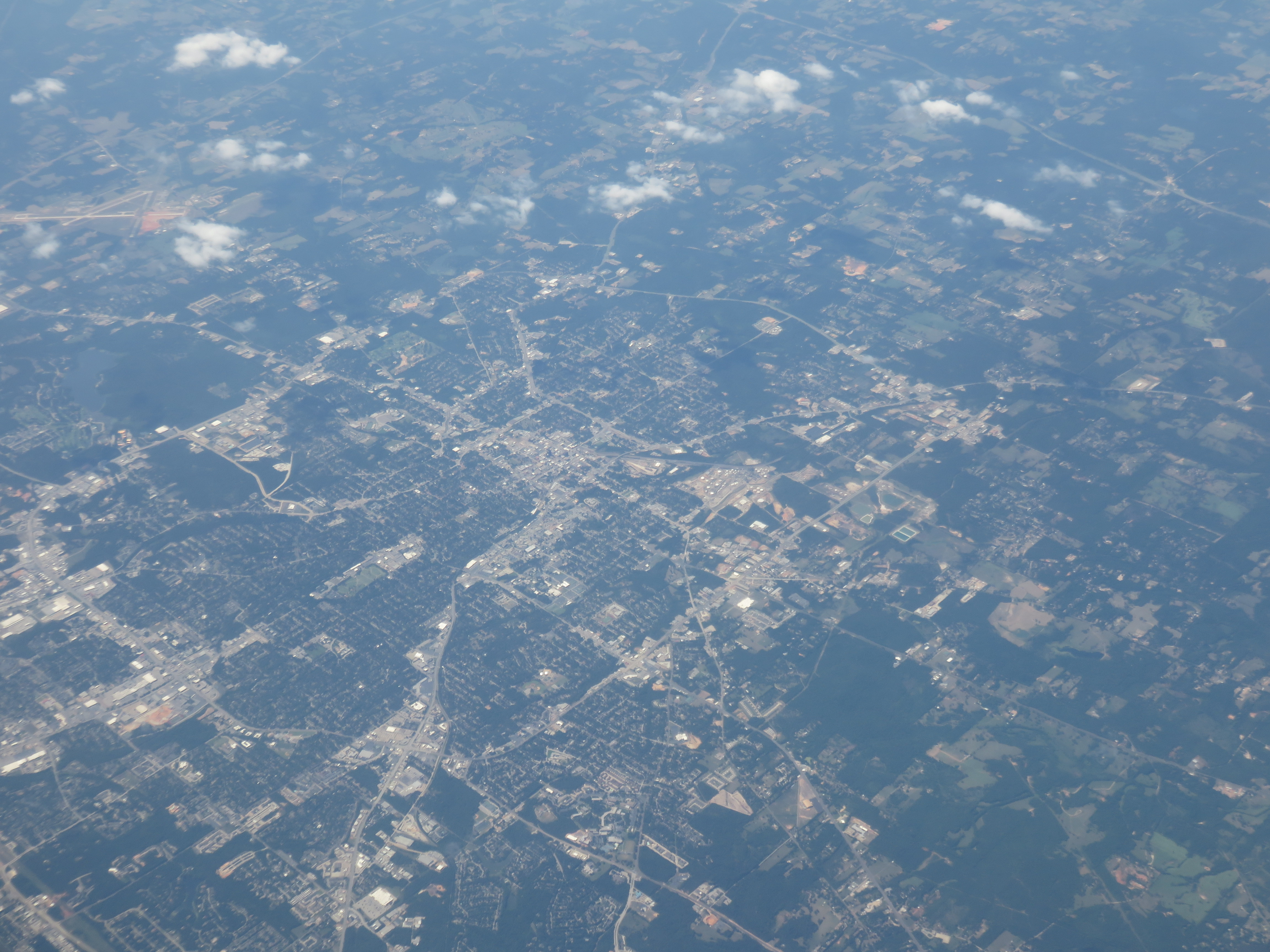 Aerial view of Tyler, Texas in 2018